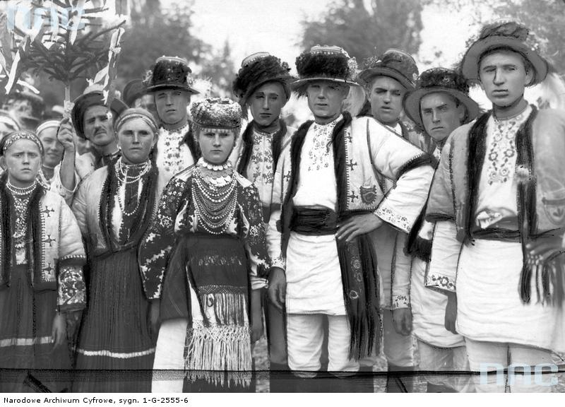 Galician / Podolian Ukrainians from Podolia, south Ternopil region (Zalishchyky area) in western Ukraine (East Galicia) during Polish rule in the area (1918-1939).